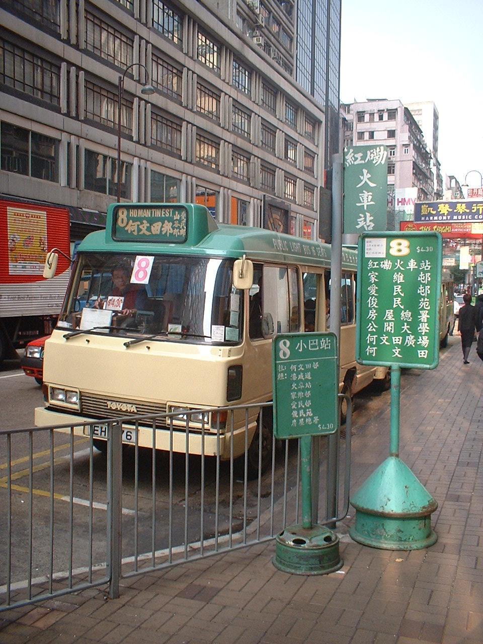 A green public minibus awaiting at the station at Tsim Sha Tsui.